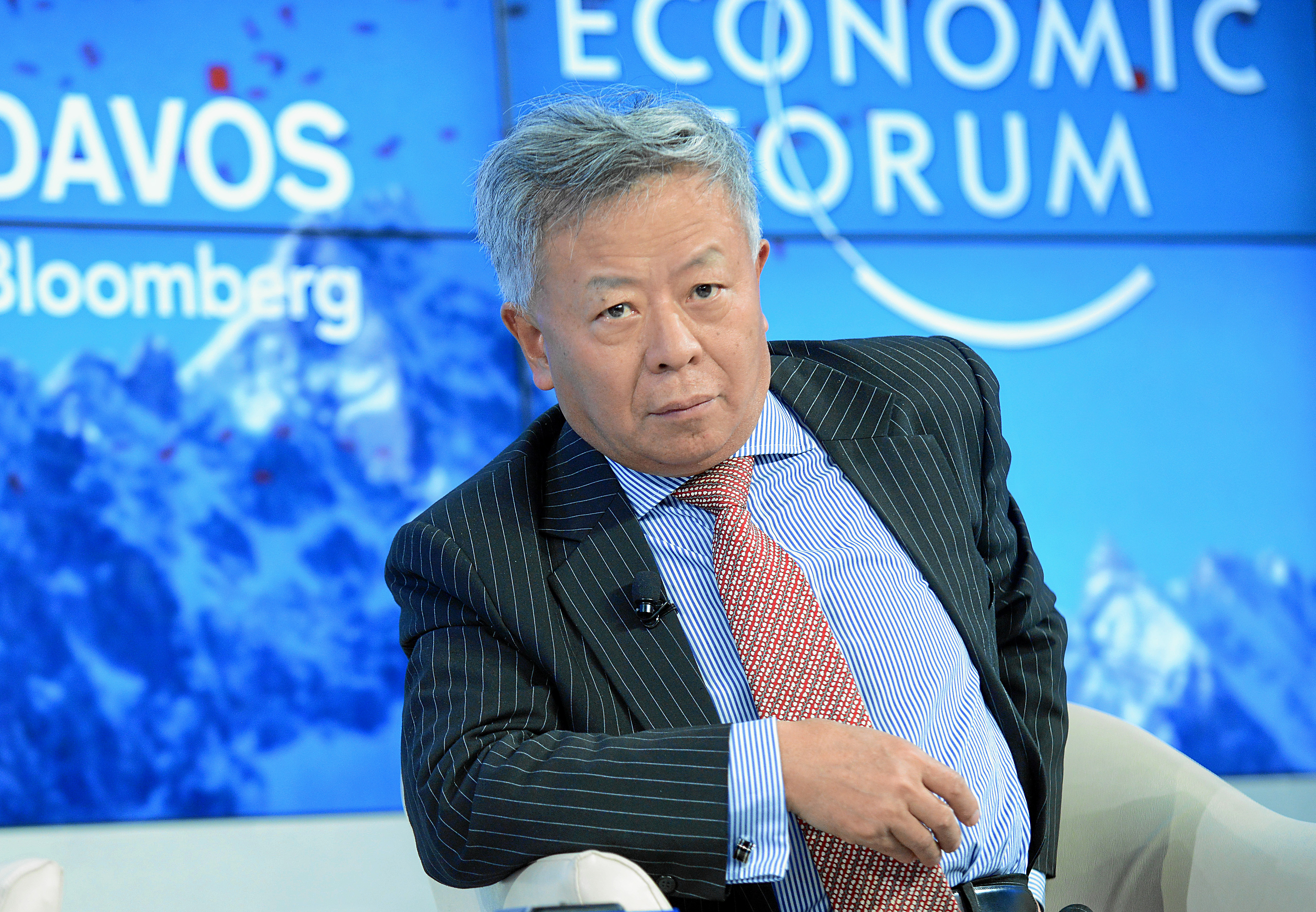 DAVOS/SWITZERLAND, 25JAN13 - Jin Liqun, Chairman of the Board of Supervisors, China Investment Corporation (CIC), People's Republic of China is captured during the session 'No Growth, Easy Money - The New Normal?' at the Annual Meeting 2013 of the World Economic Forum in Davos, Switzerland, January 25, 2013. . . Copyright by World Economic Forum. . Michael Wuertenberg